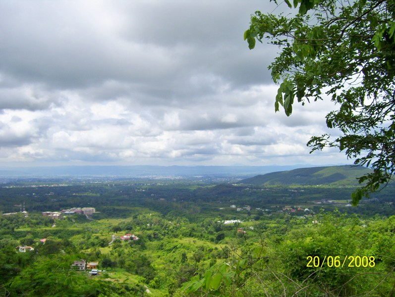 A view of Dehradun, along with its wonderful climate.